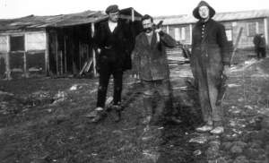 First SCI workcamp in Esnes near Verdun. Building accommodation for the war damaged village (1920/21).